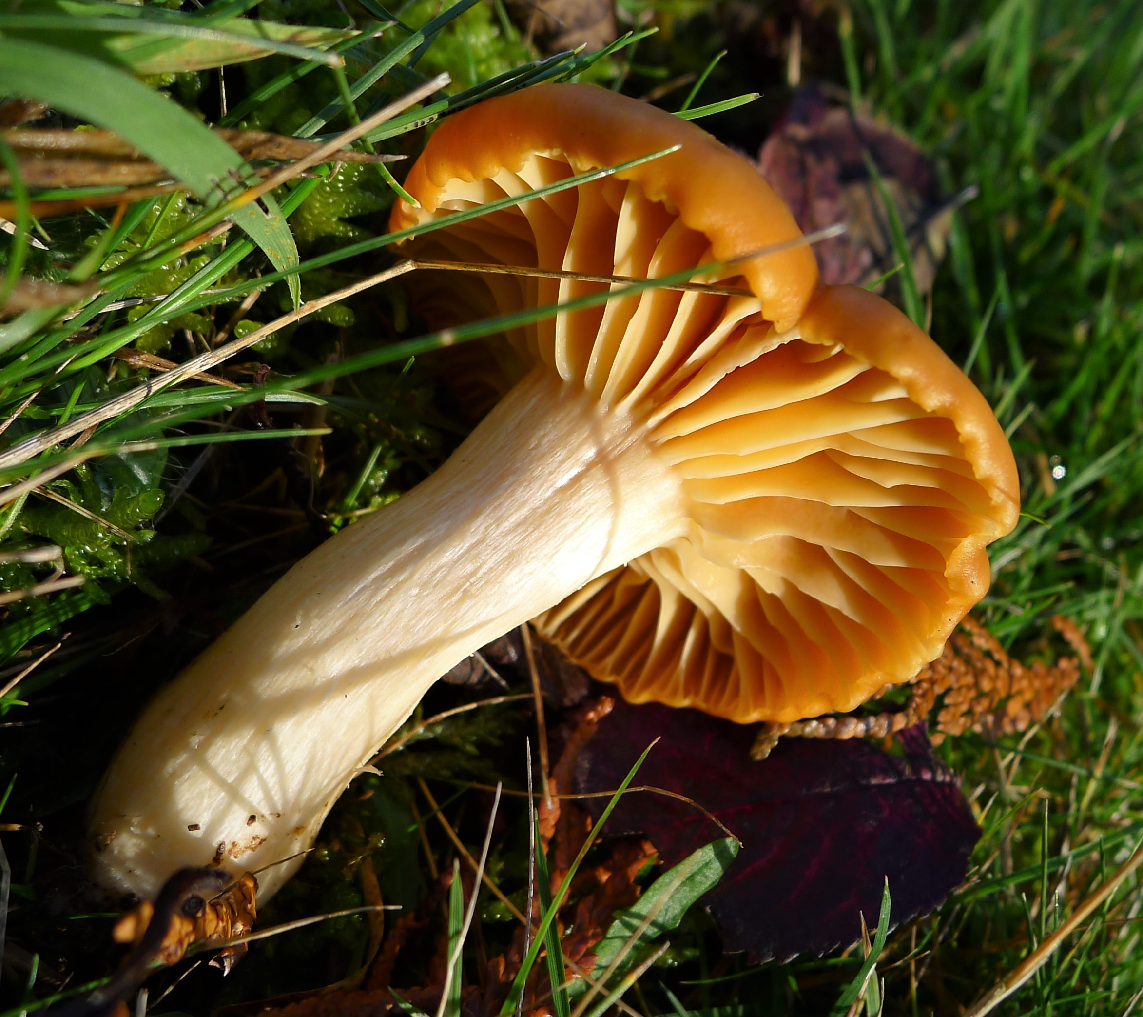 Birtsmorton Churchyard. Worcs. SO775365